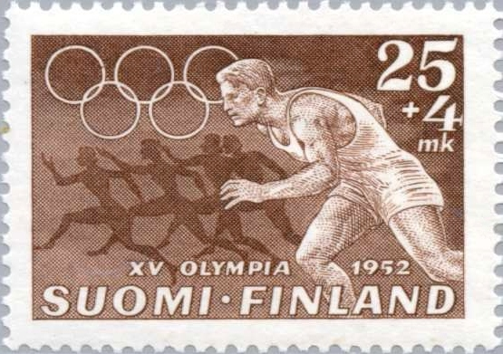 Postage stamp celebrating the 1952 Olympic Games in Helsinki